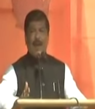 Sudip Roy Barman speaking at a BJP rally with Rajnath Singh